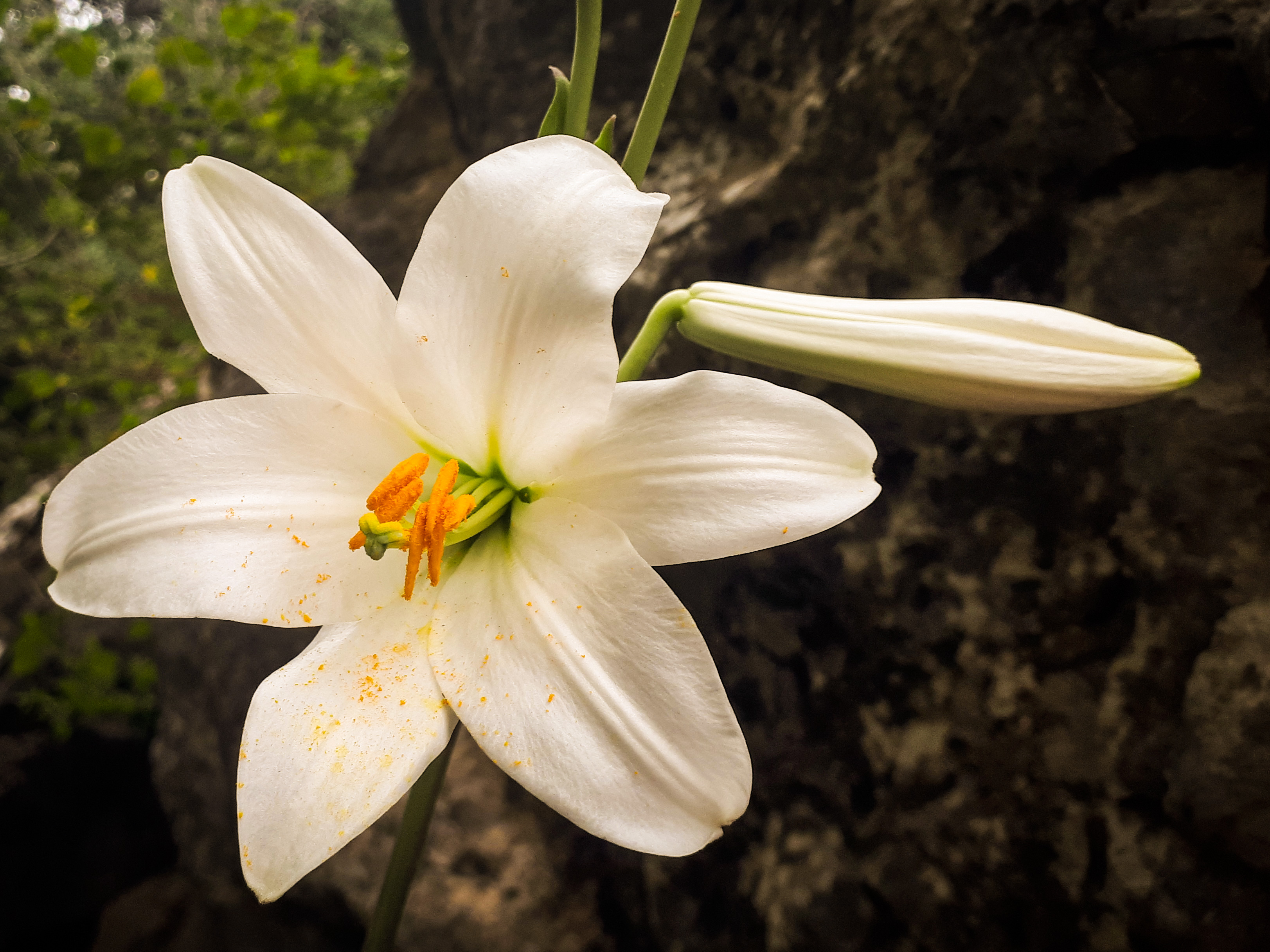 Lilium candidum / Madonna Lilly Israel